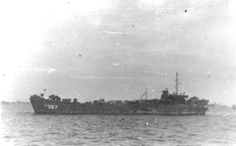 United States Navy tank landing ships USS LST-567